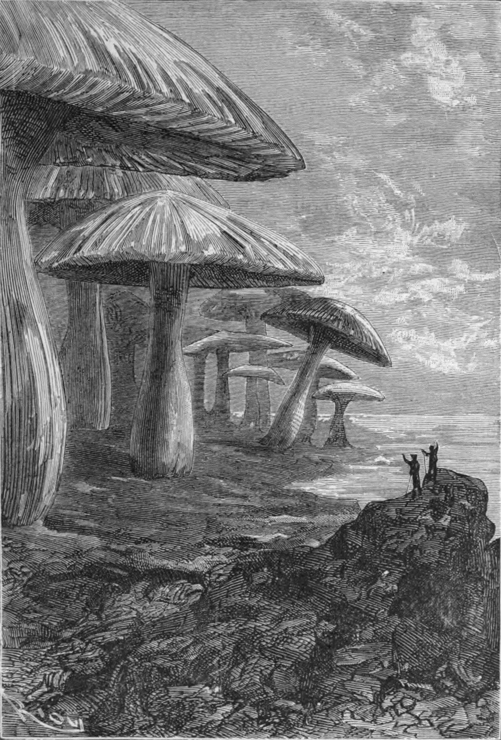 An ilustration from the novel "Journey to the Center of the Earth" by Jules Verne painted by Édouard Riou.